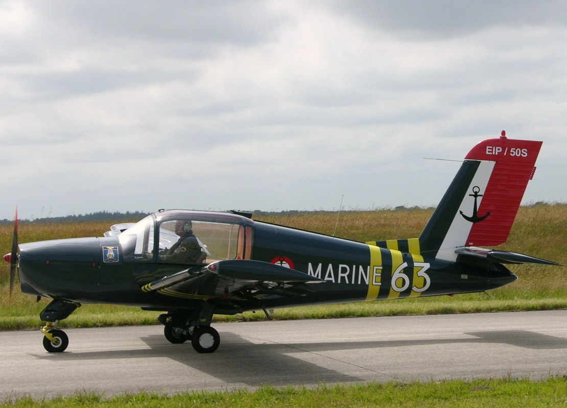 Unfortunately the sun was on the wrong side